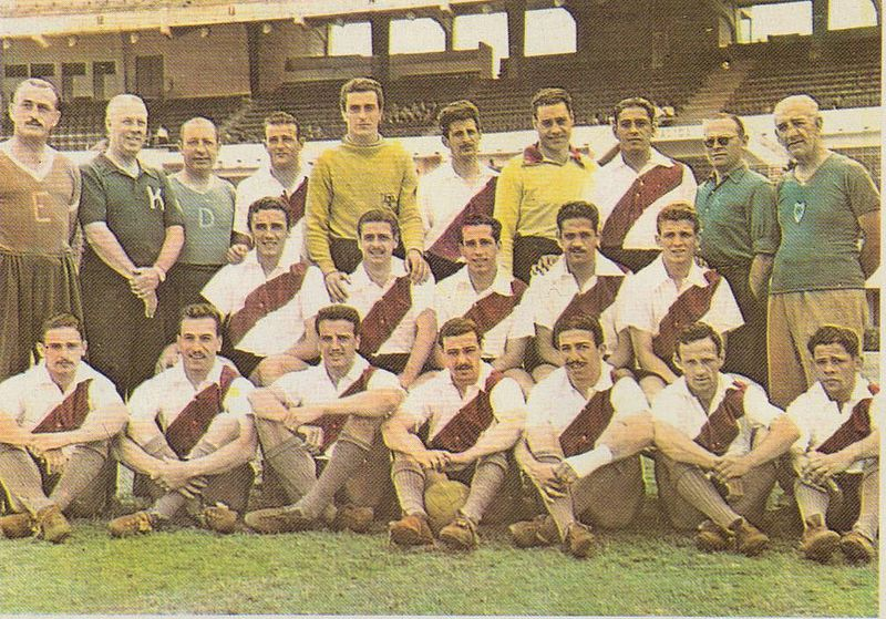 River Plate squad in 1950